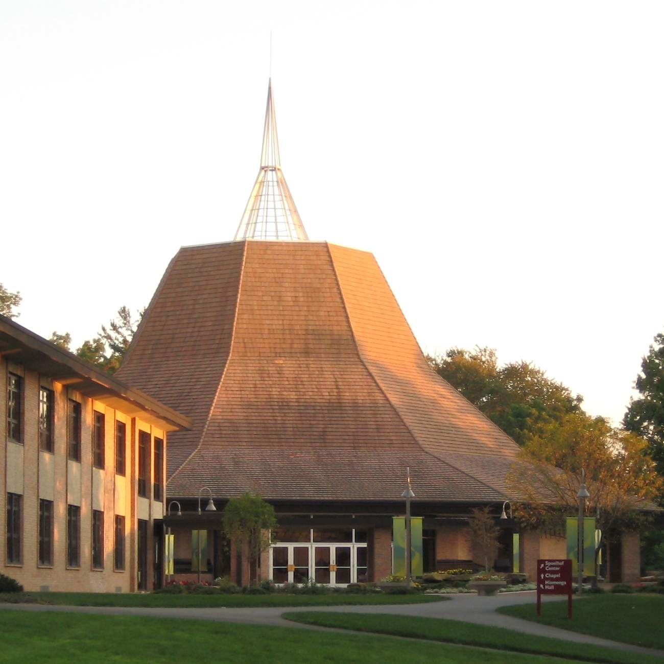 Image of the Calvin College Chapel viewed from the Commons Lawn.